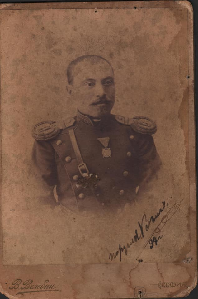 Colonel Stefan Vulchev as poruchik (senior lieutenant) in 1894